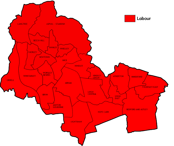 Wigan ward map with political colouring.